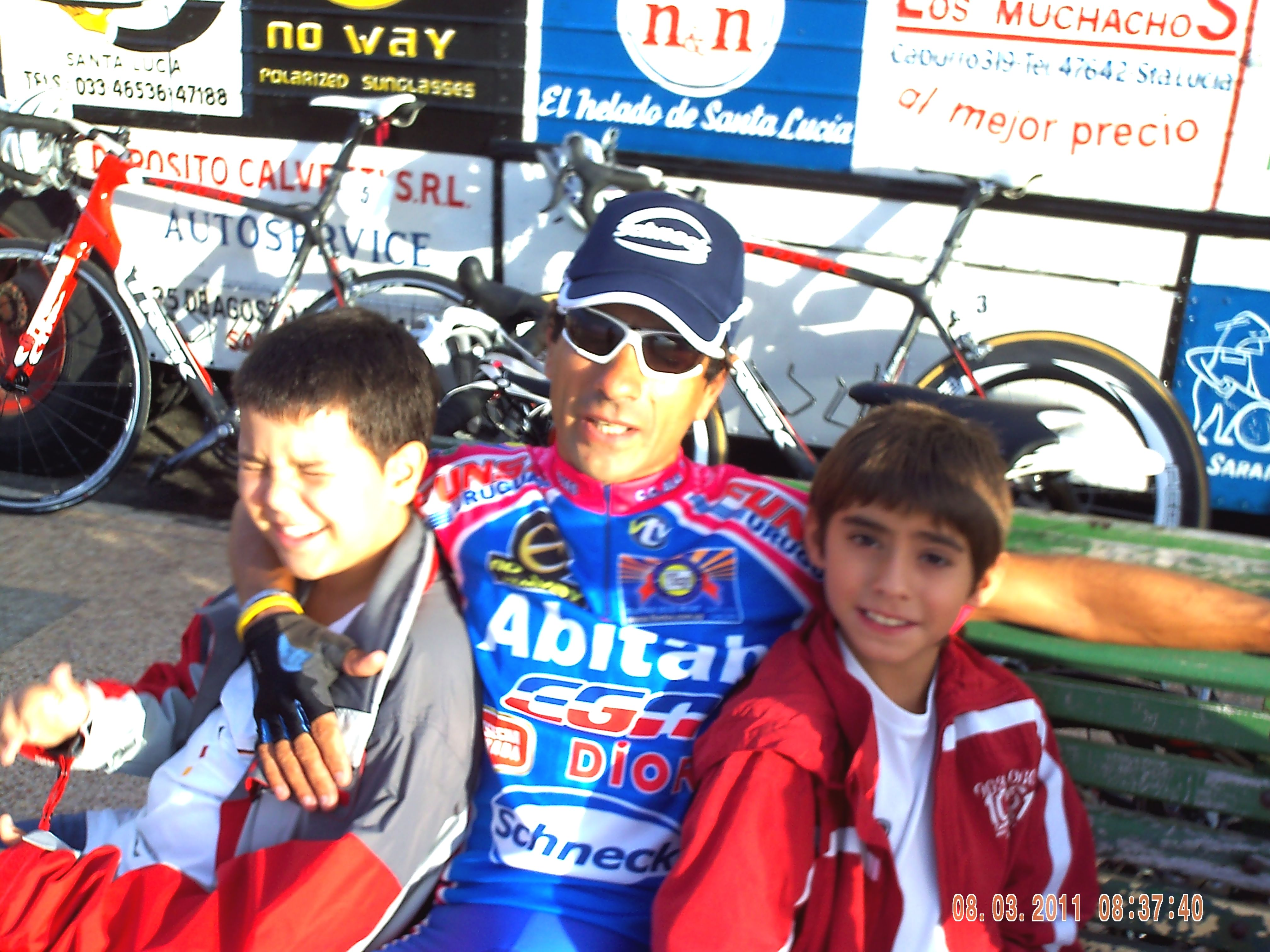 Jorge Bravo, rider of the team Alas Rojas de Santa Lucía, Uruguay